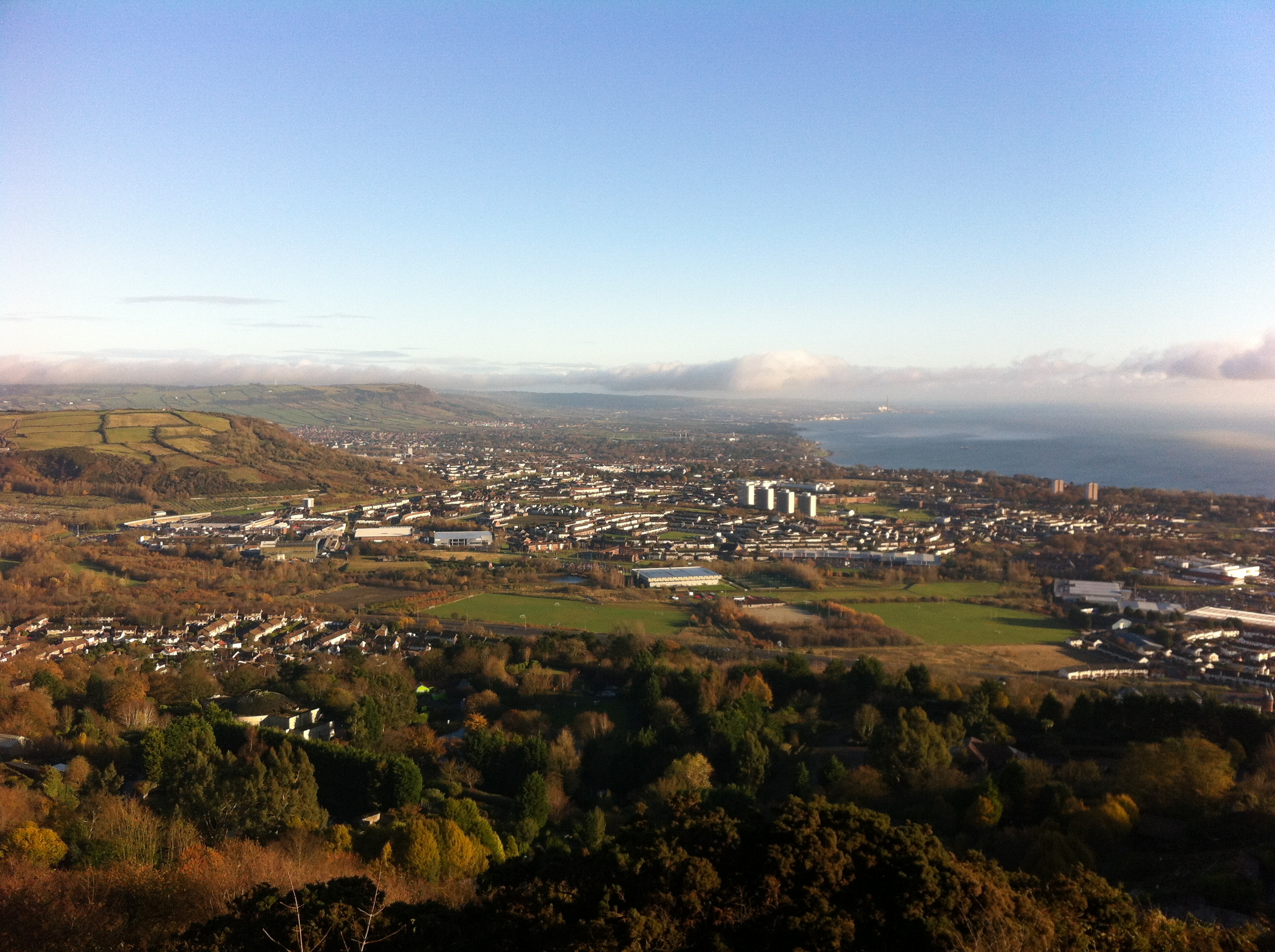 Newtownabbey from Cavehill